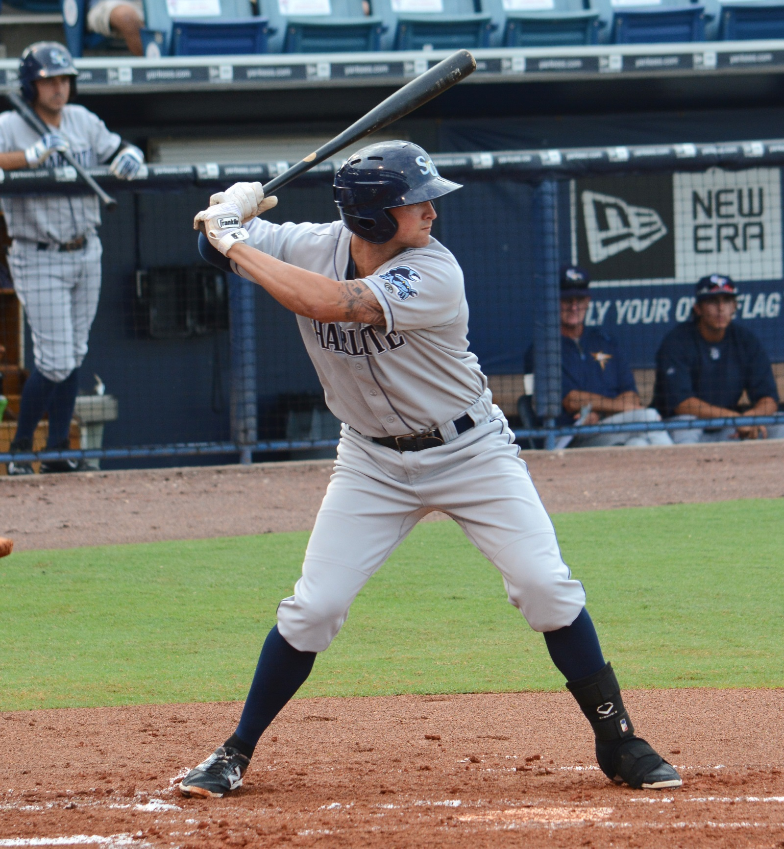 Charlotte Stone Crabs' Mike Marjama bats against Tampa on July 16, 2015.